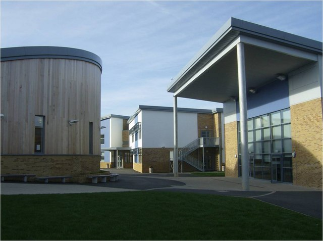 The New Greenford High School The new school was built on what was the school playing fields, we moved into the new buildings in September 2007, the old building is almost demolished and will eventually be school playing fields.